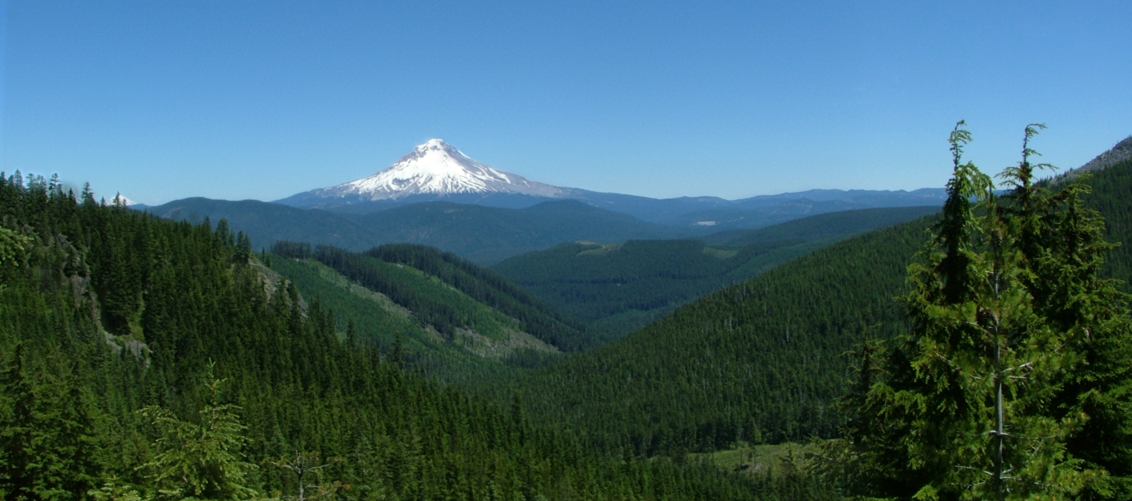 Mount Hood National Forest, taken from a viewpoint south of the mountain near Little Crater Lake campground, Oregon